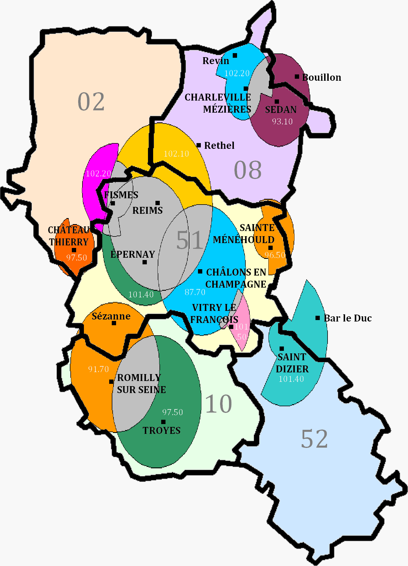 Theorical broadcast area of local radio Champagne FM (Champagne-Ardenne region, France)